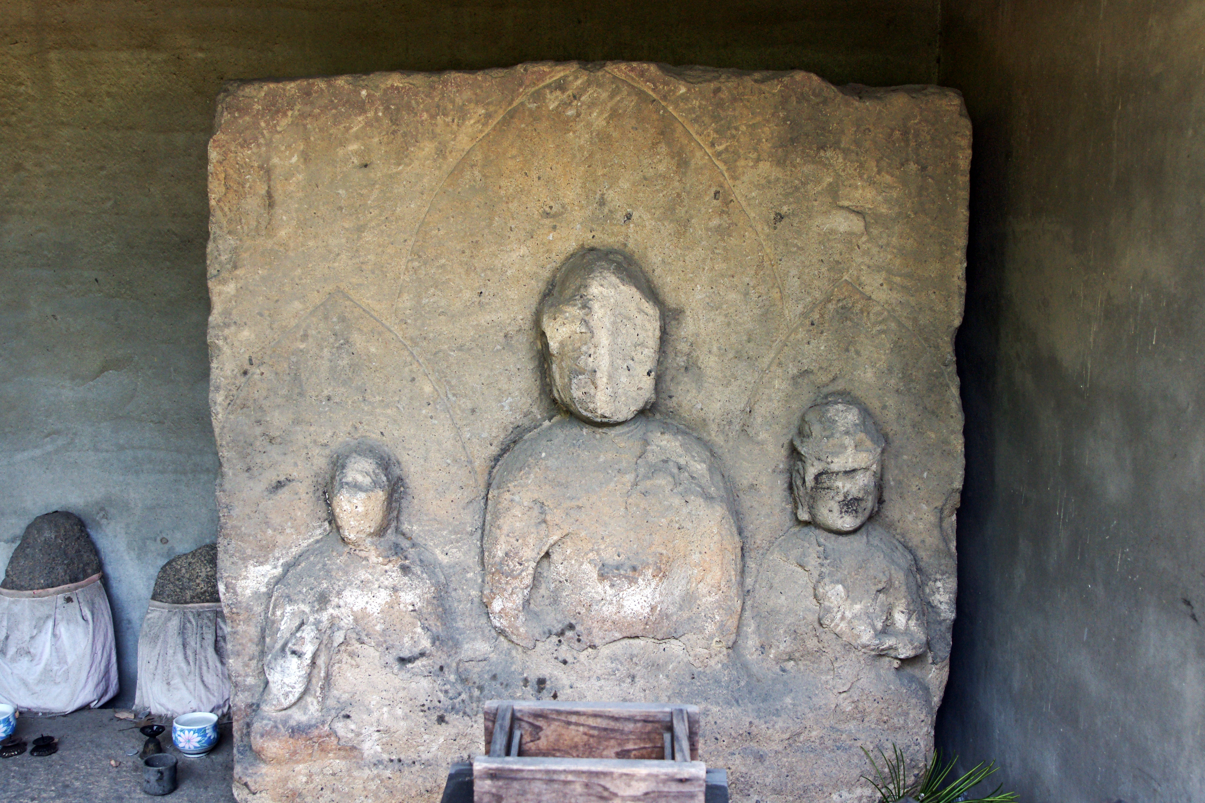 Anrakujuin in Kyoto, Kyoto prefecture, Japan.